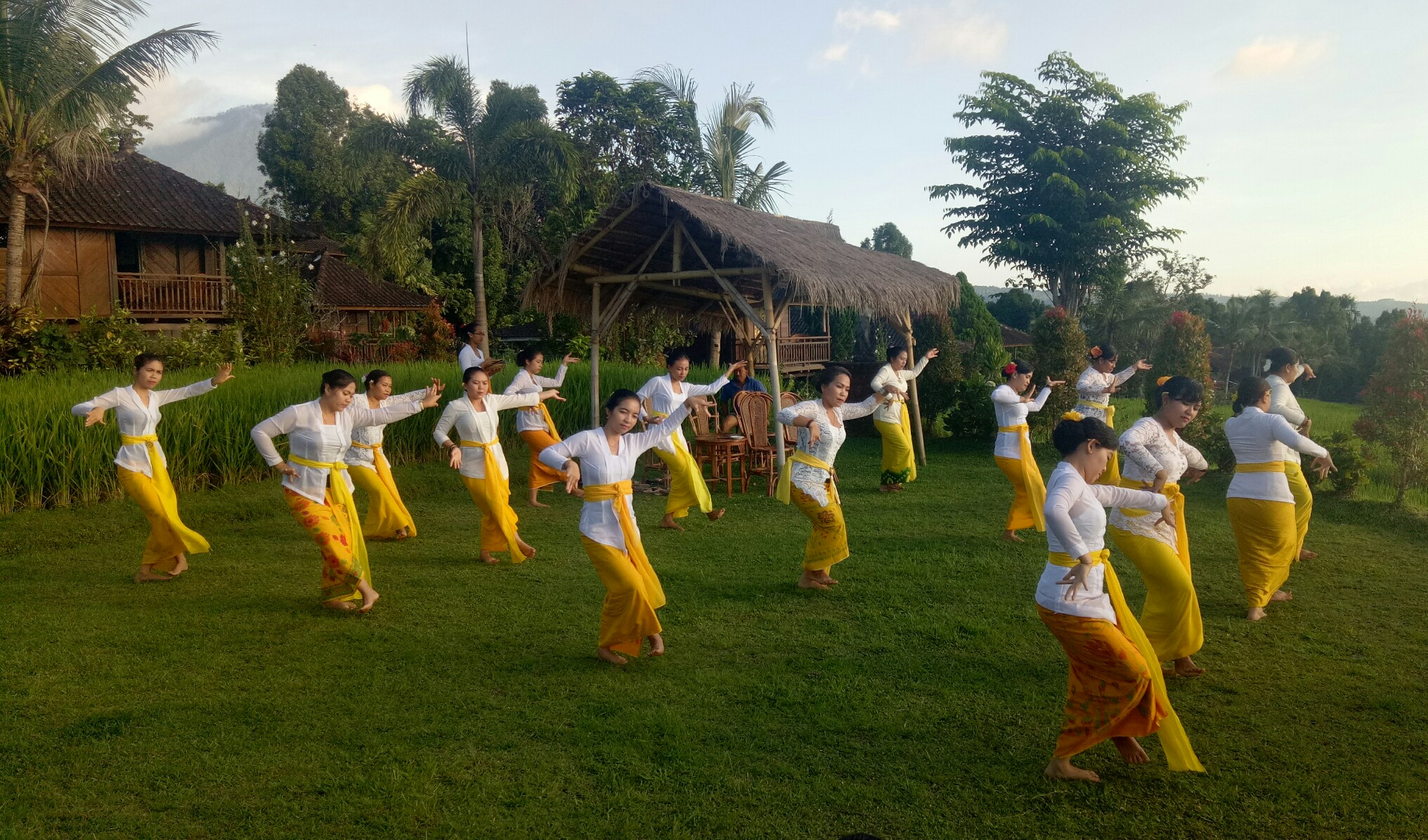 Rejang Renteng is one of Balinese Dance which performs during a ceremony at the temple